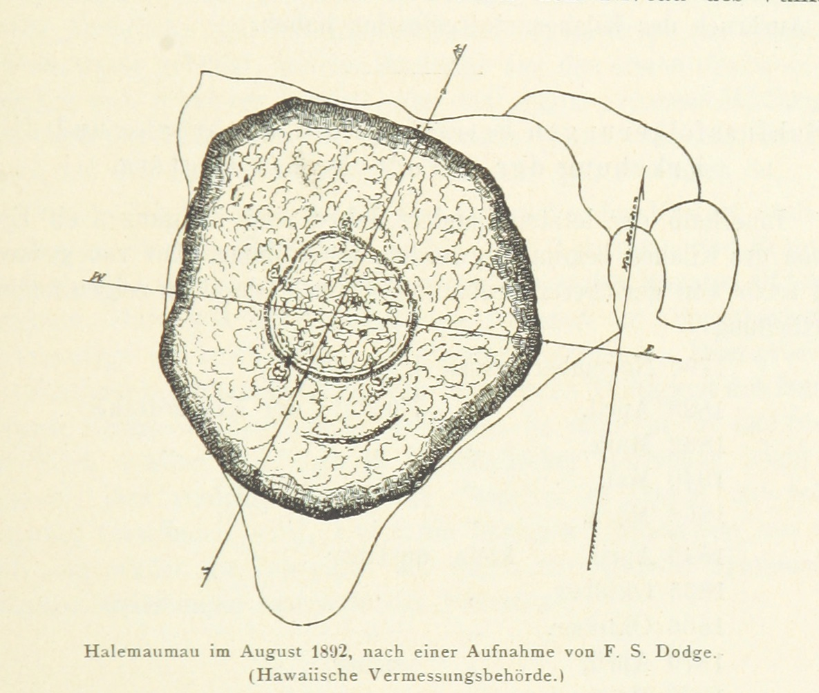 View this map on the BL Georeferencer service. Image taken from: Title: "Die Hawaiischen Inseln ... Mit ... Karten, etc. (Literatur-Uebersicht.)" Author: MARCUSE, Adolf. Shelfmark: "British Library HMNTS 10492.ff.15." Page: 119 Place of Publishing: Berlin Date of Publishing: 1894 Issuance: monographic Identifier: 002378685 Explore: Find this item in the British Library catalogue, 'Explore'. Download the PDF for this book (volume: 0) Image found on book scan 119 (NB not necessarily a page number) Download the OCR-derived text for this volume: (plain text) or (json) Click here to see all the illustrations in this book and click here to browse other illustrations published in books in the same year. Order a higher quality version from here.